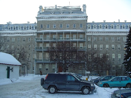 The residence of priests and the Major Seminary